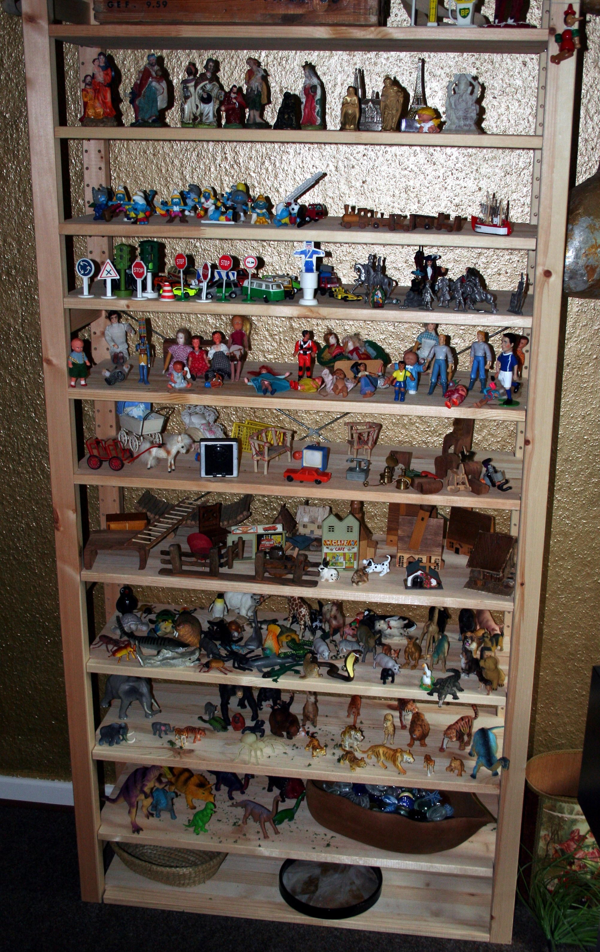 Sand Play Therapy / Dora M. Kalff